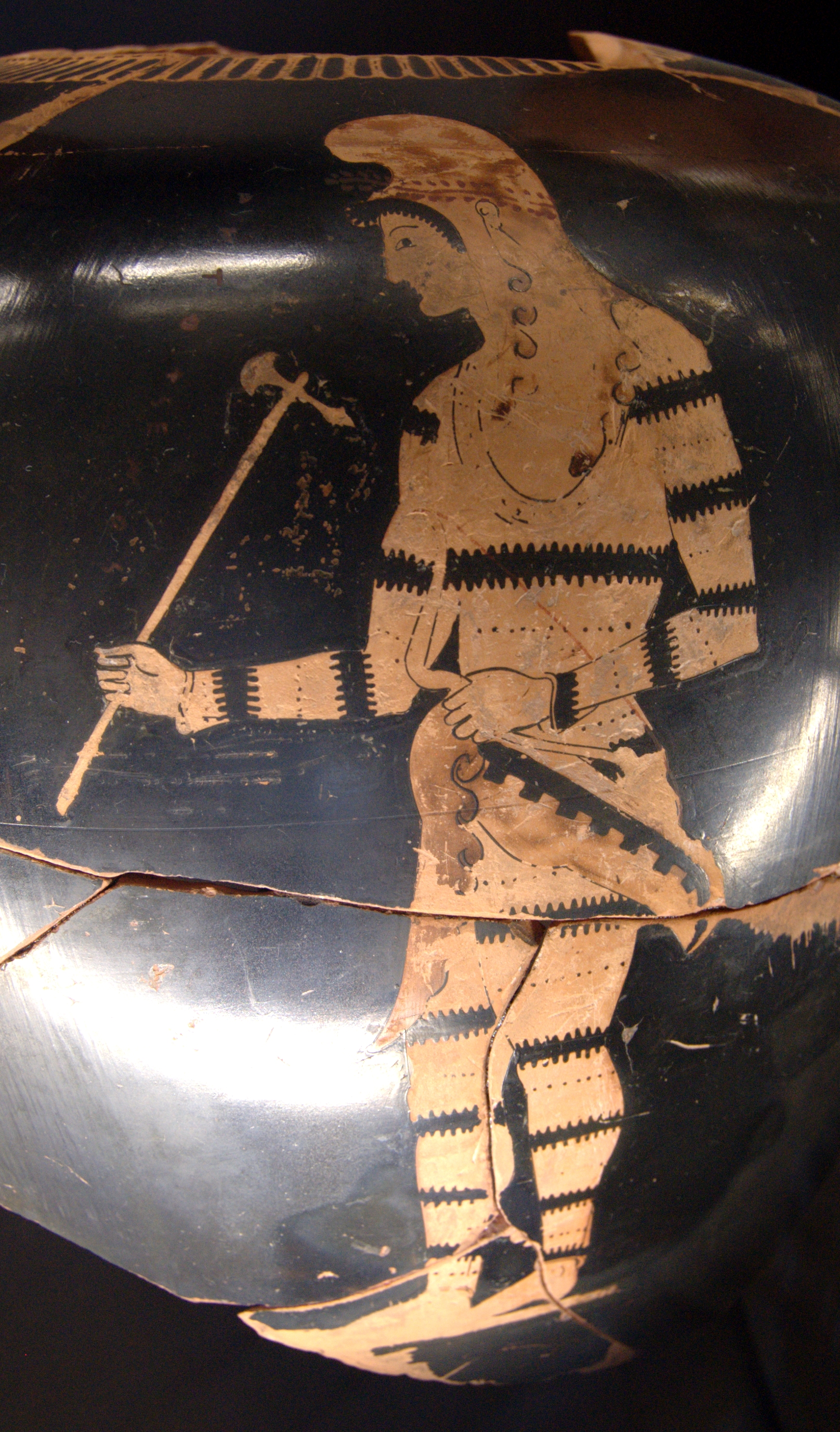 Scythian archer; inscription near the headdress: ‹Π›αντοχσενος. Side A from an Attic red-figure neck-amphora.